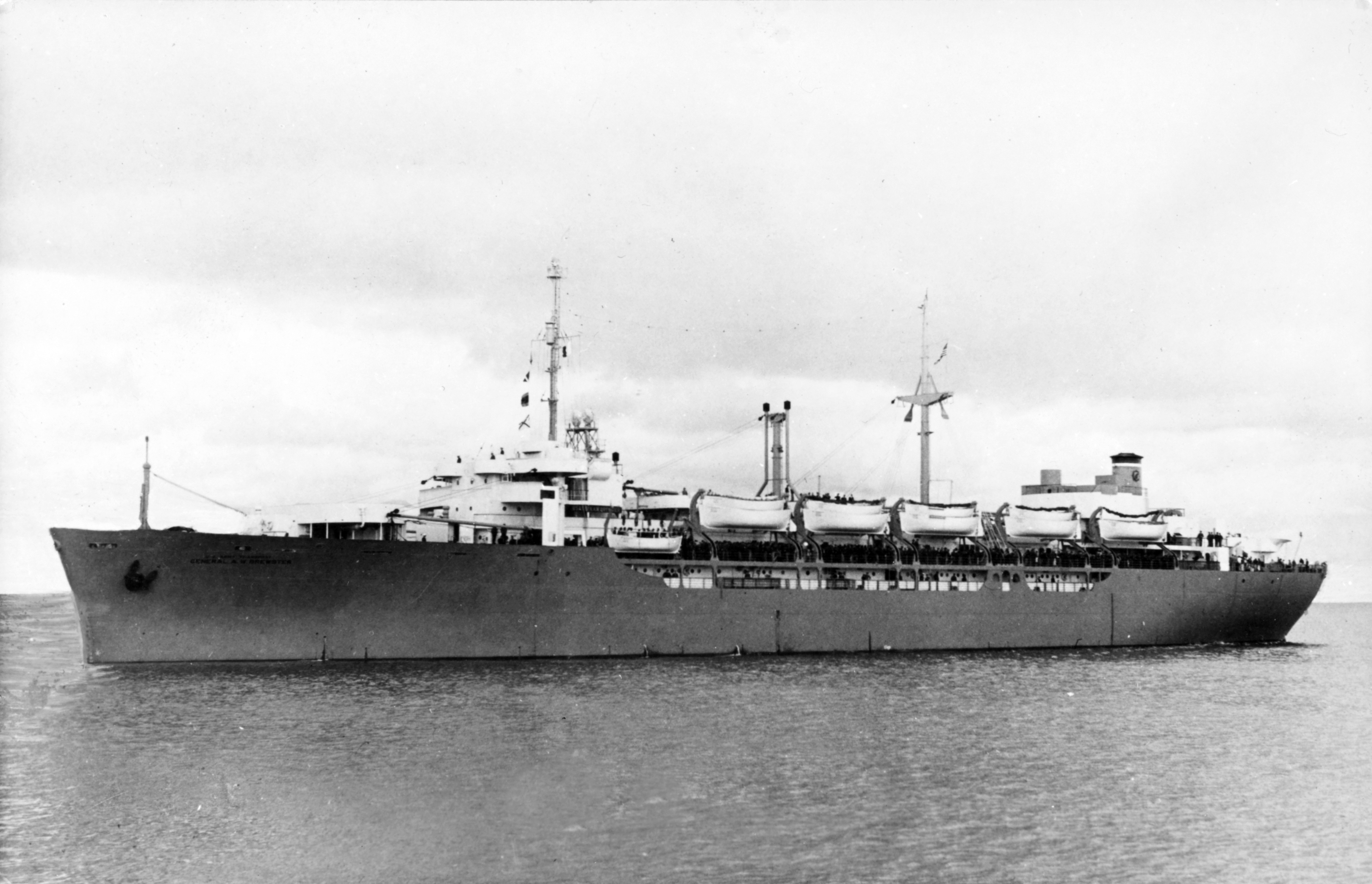 The U.S. Army Transport USAT General A. W. Brewster, circa 1946-1950. This ship served as USS General A. W. Brewster (AP-155) from 1945 to 1946 and USNS General A. W. Brewster (T-AP-155) from 1950 to 1968 (laid up since 1954).